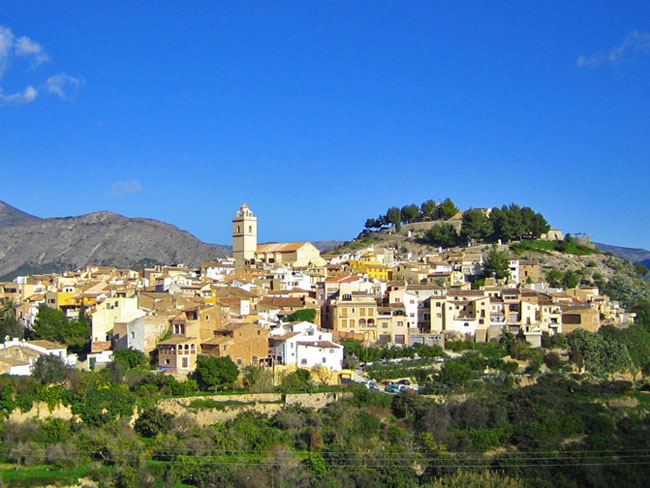 Polop de la Marina, county Marina Baja, Region of Valencia, Spain.